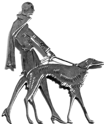 b/w photograph of an art deco piece.